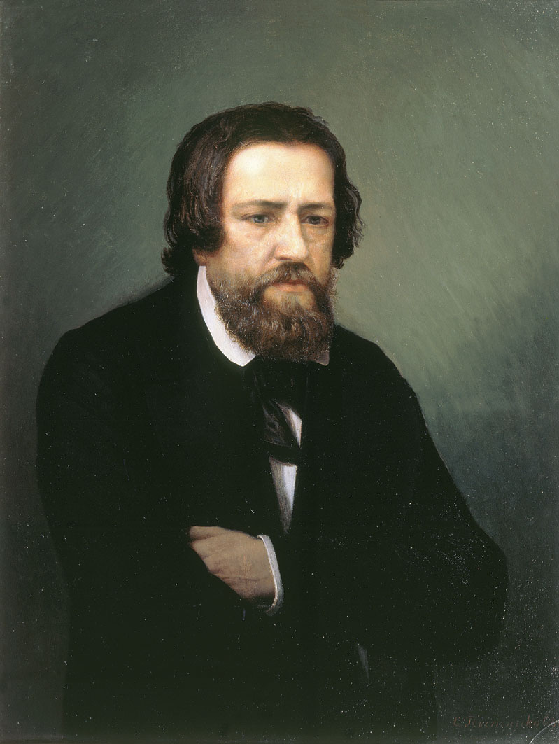 The portrait was created after the death of Alexander Ivanov (1806–1858), and painted after a photograph.